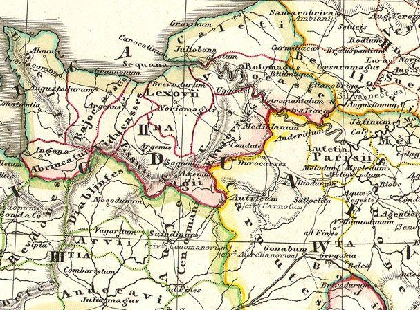 Detail of a hand colored map of Gaul. It was published in 1855 by Justus Perthes. The section shows some Celtic tribes in Normandy.